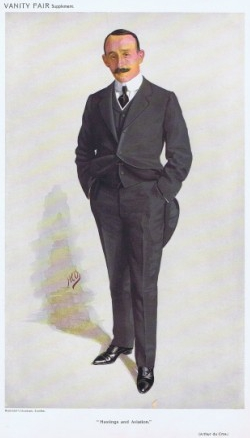 Caricature of A du Cros JP MP. Caption read "Hastings and Aviation".